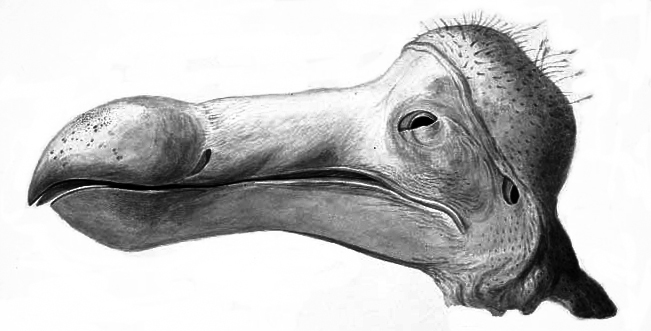 Recently discovered sketch of the Ashmolean Dodo head at Oxford, prior to dissection.